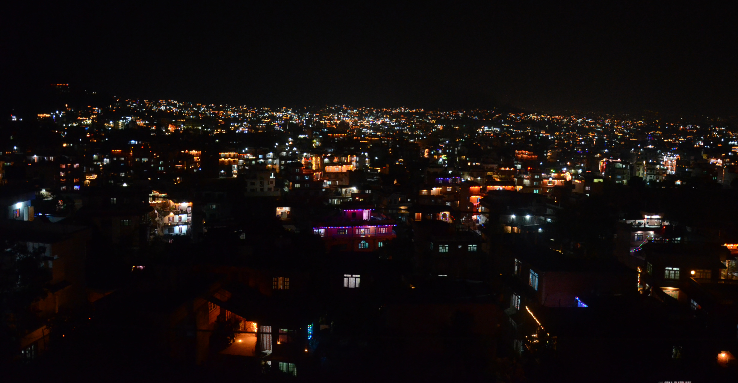 This is view of Kathmandu valley from Halchowk hill in Dipawali 2013